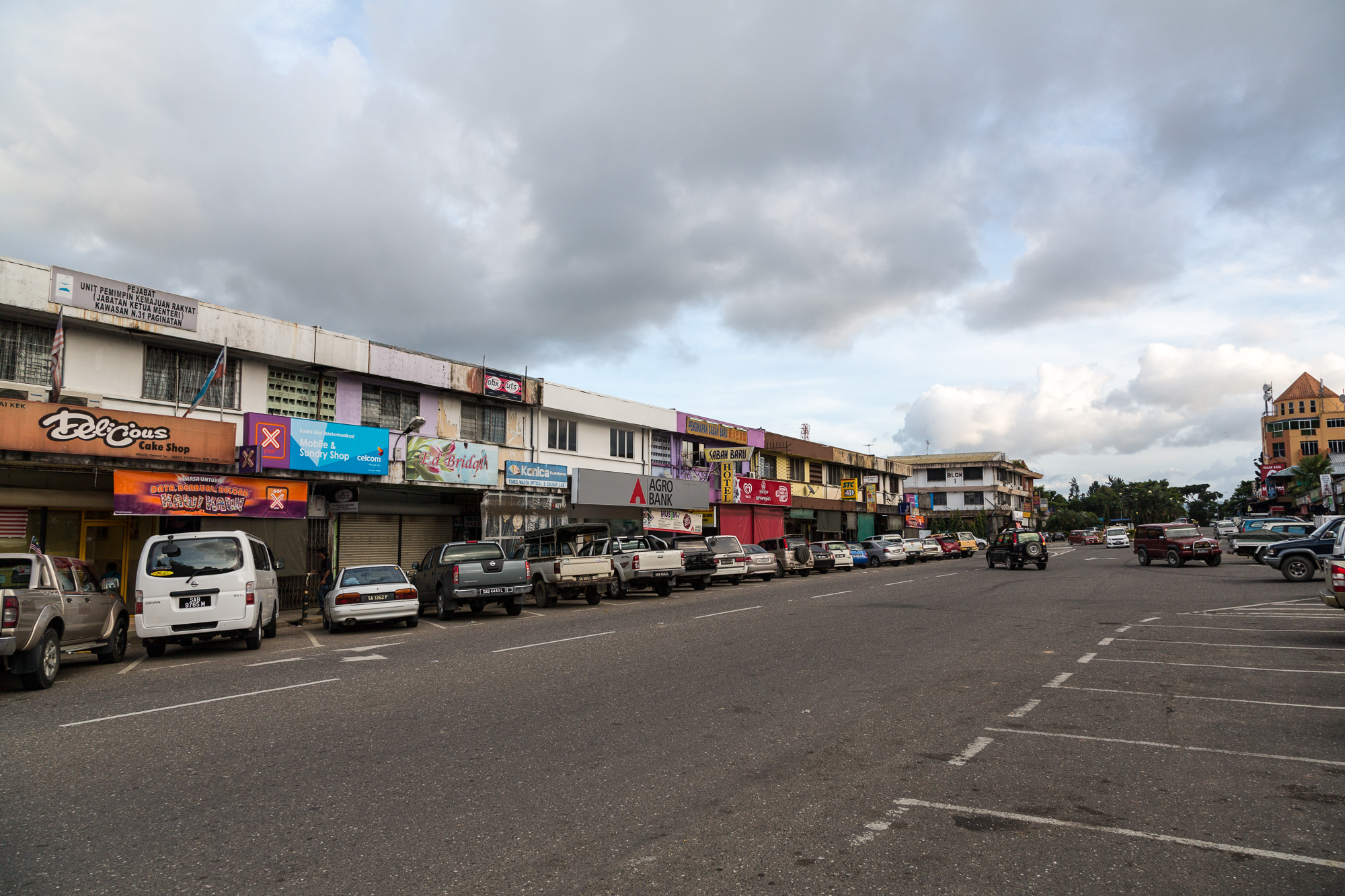 Ranau, Sabah: Pekan Ranau